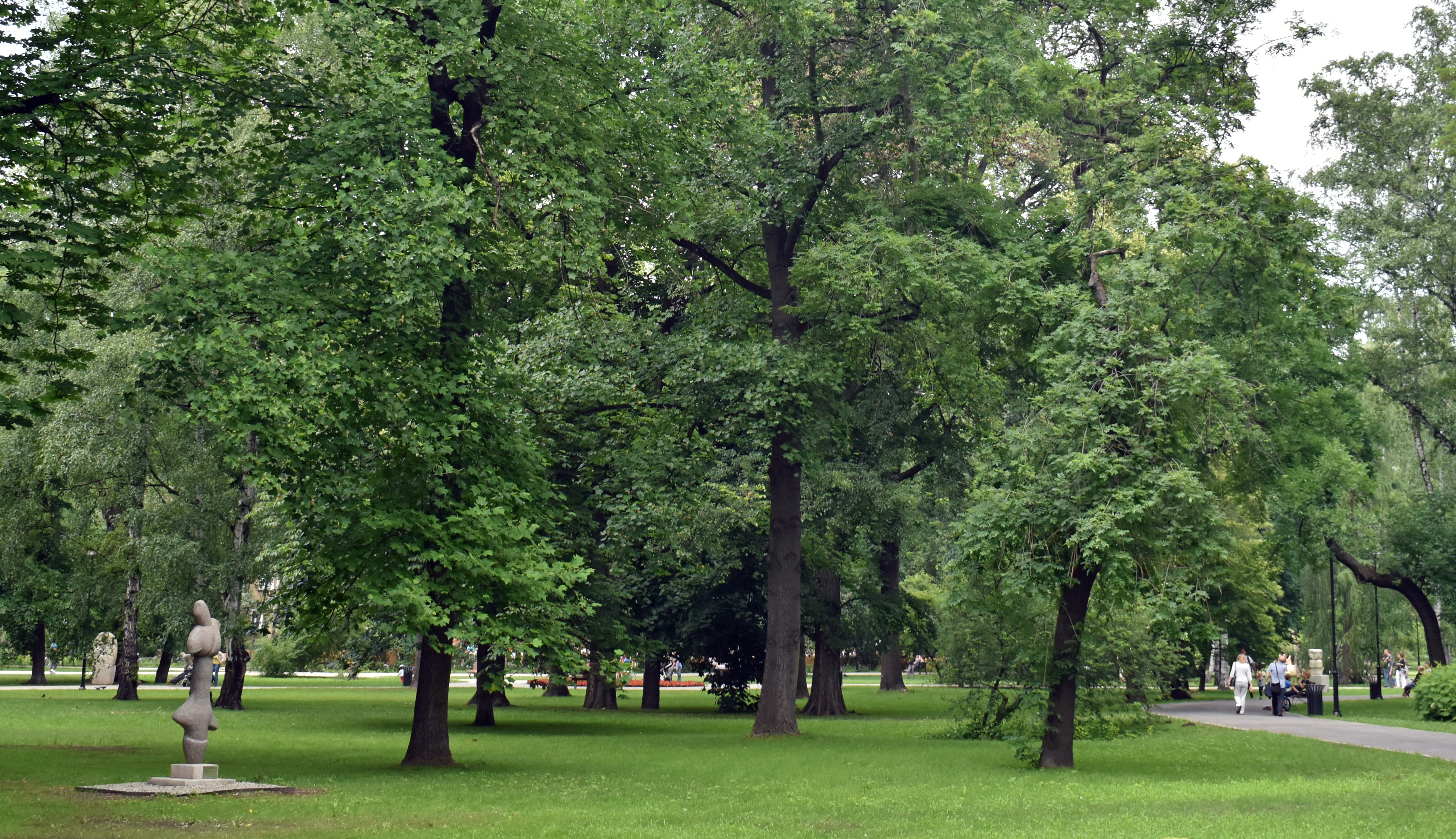 Krakowski Park, sculptures2, Inwalidow square, Krakow, Poland